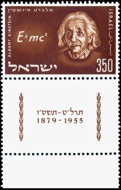 Israeli postage stamp depicting Albert Einstein and the E=mc2 formula - 350 mil